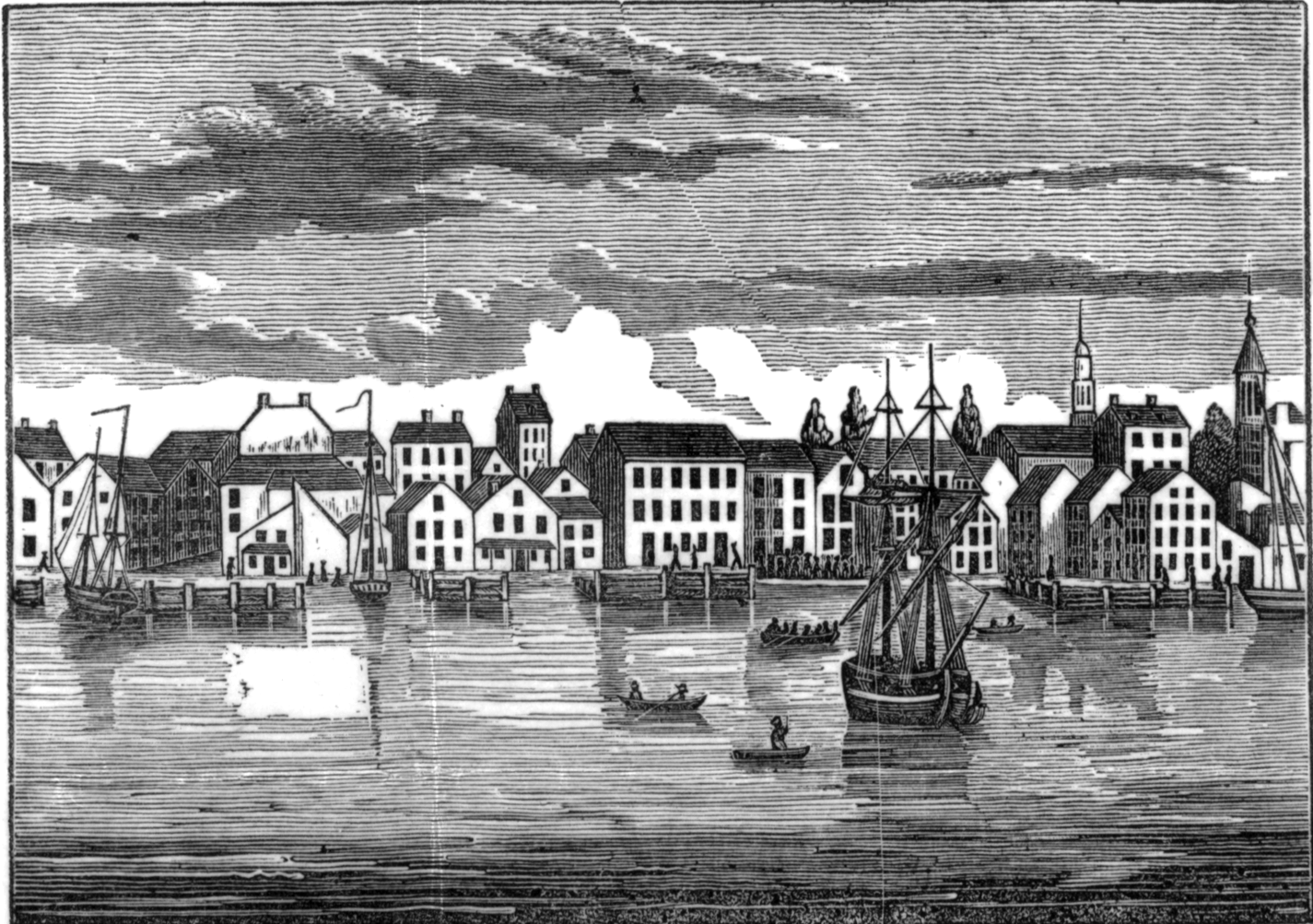 Detail of a slave ship at the Alexandria, Virginia (then DC) waterfront. From broadside published by the American Anti-Slavery Society. Original caption of the image: "View of a section of Alexandria, with a slave ship receiving her cargo of slaves."